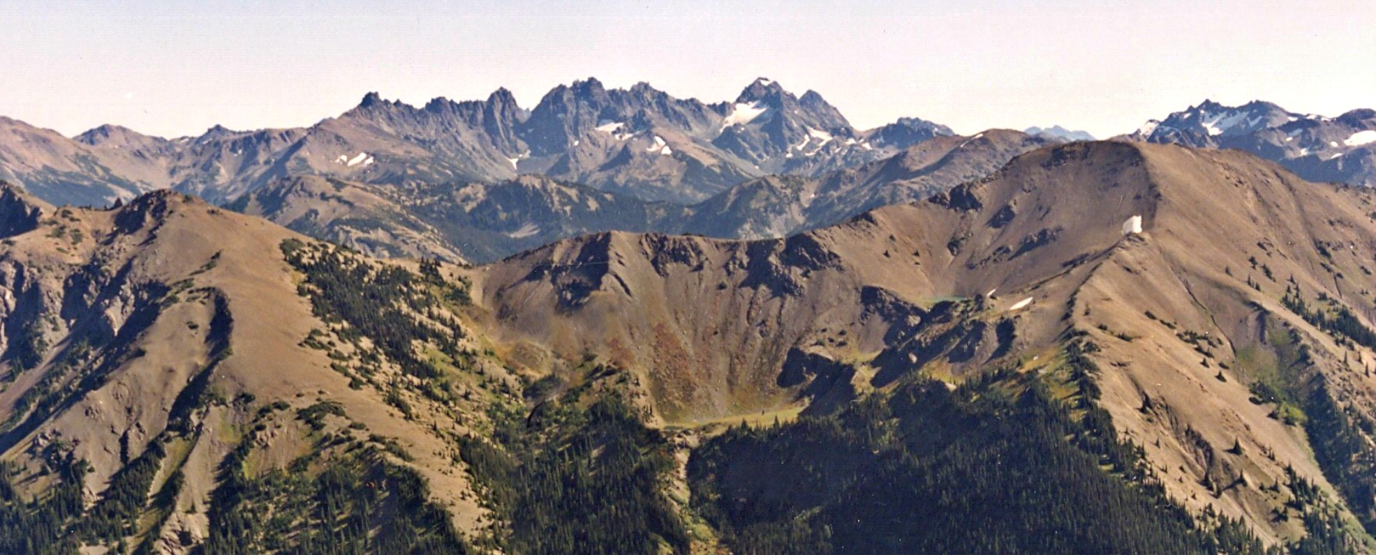 The Needles from Elk Mountain. Olympic Mountains. Annotations for Mystery, Deception, Martin, Clark, Johnson, Walkinshaw.